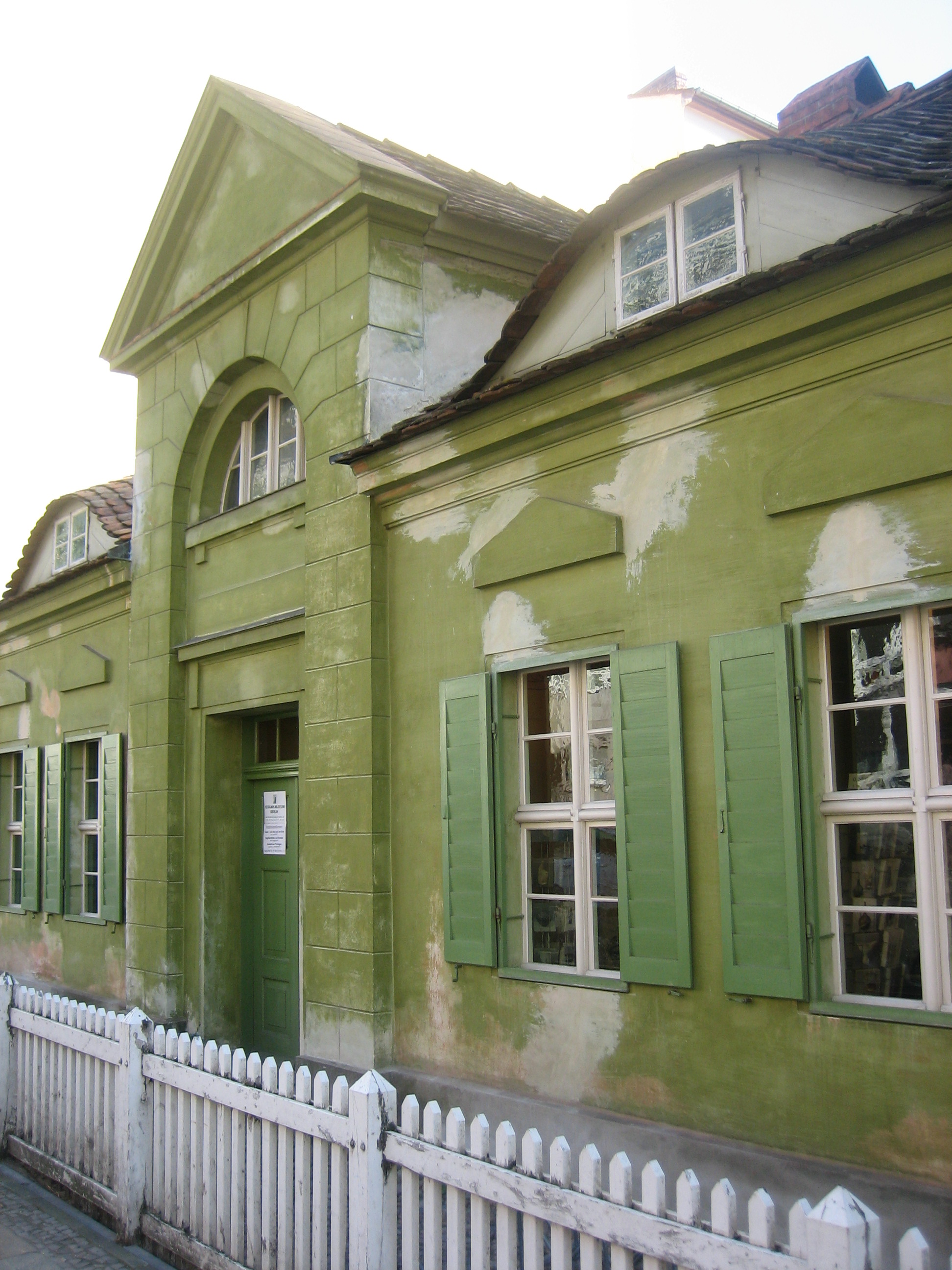 Oldest house of Berlin-Charlottenburg in Schustehrusstraße. Built around 1711.